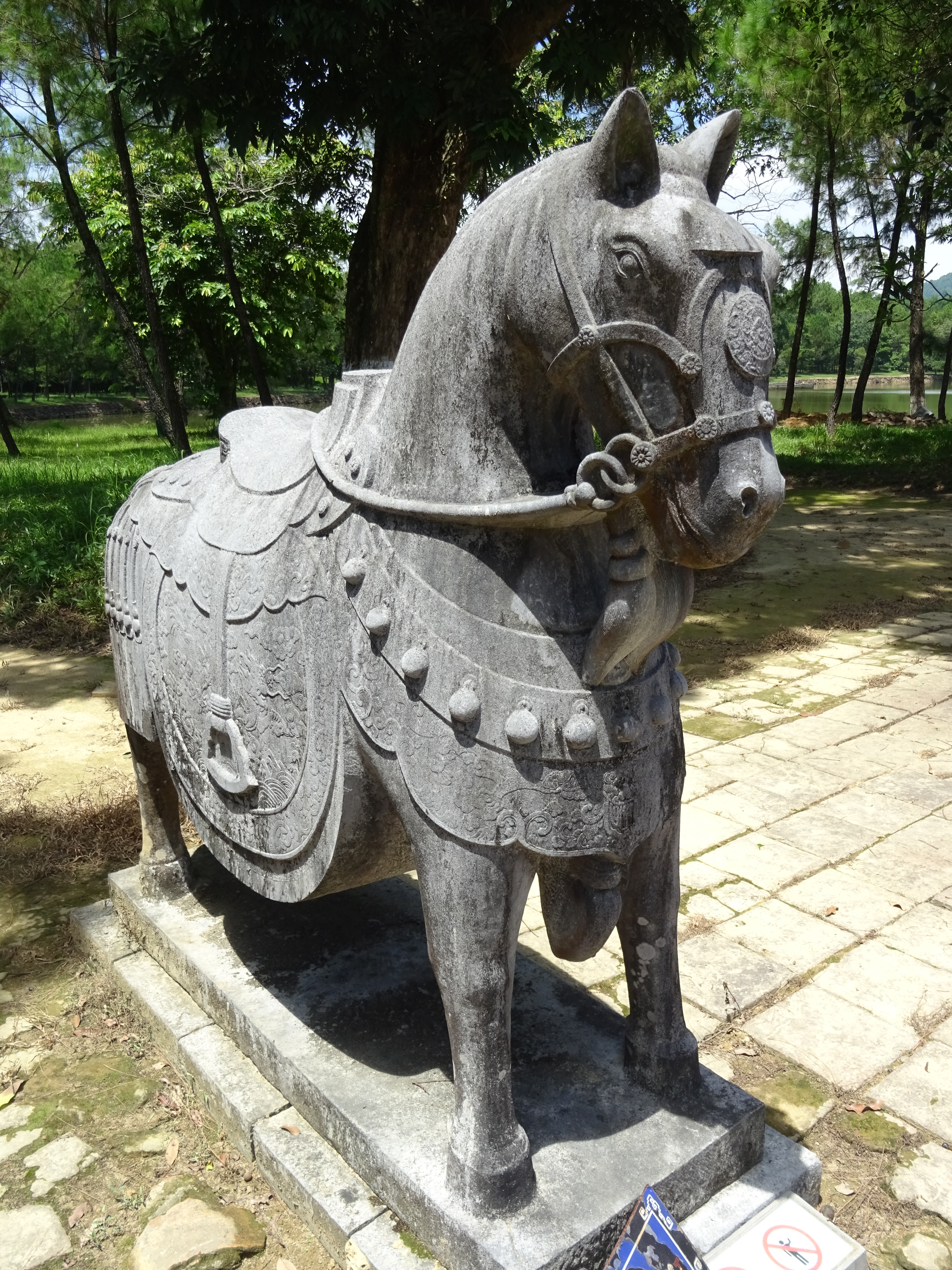 The Mausoleum of Emperor Minh Mạng near Huế.